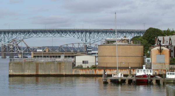 Shore of the Thames River in Groton, Connecticut, looking north. The complex in the foreground is the Groton Utilities Pollution Abatement Facility (sewage treatment plant); in the background is the Gold Star Memorial Bridge.